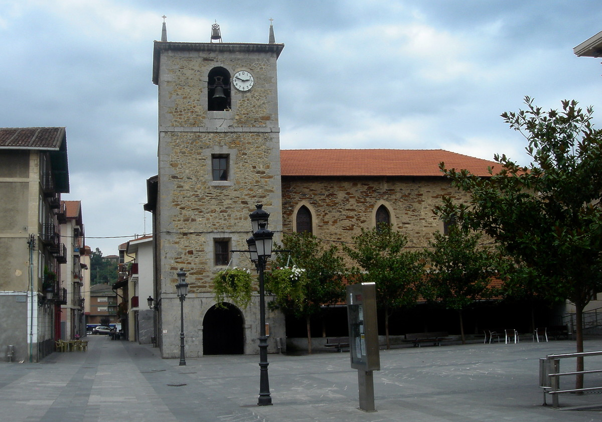 Church of Ugao (Biscay, Basque Country, Spain)